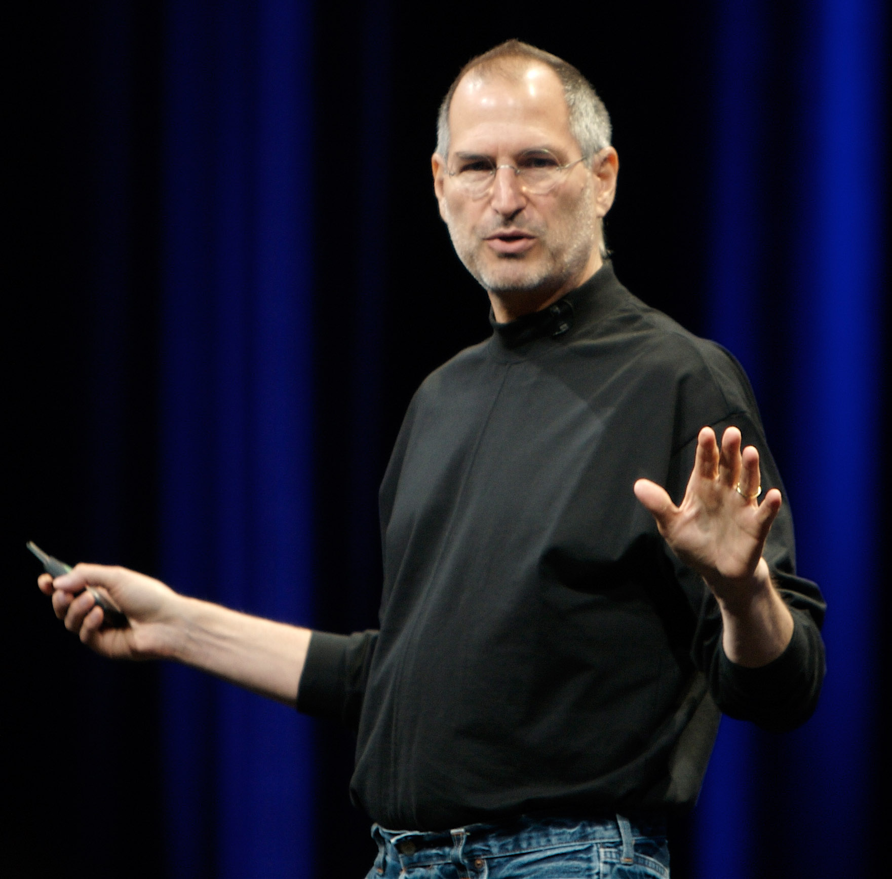 Steve Jobs at the WWDC 07